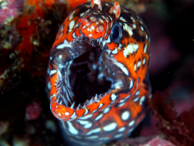 Leopard moray eel